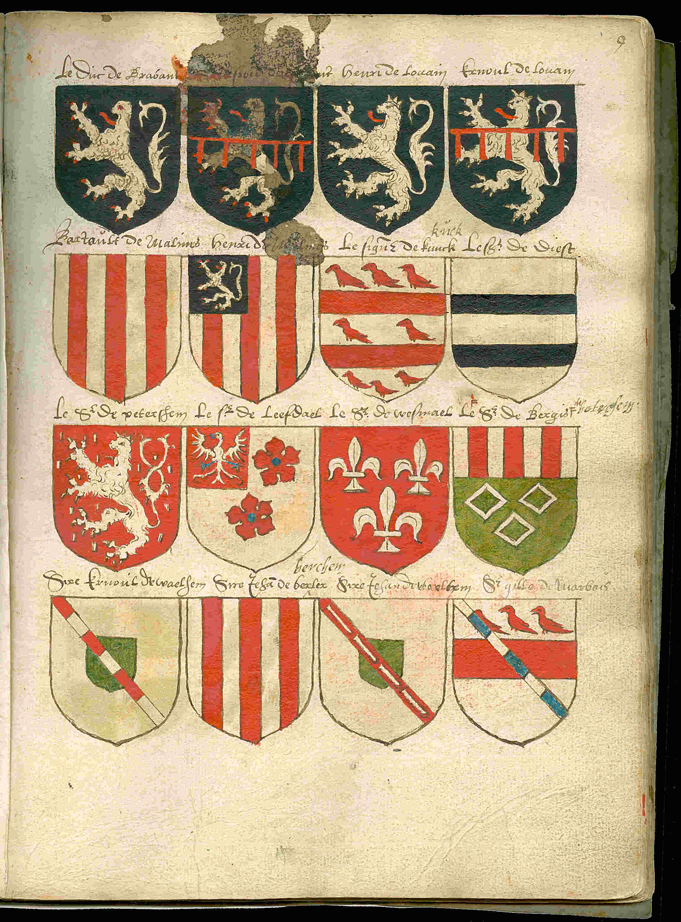 Page 09 from a copy of the Beyeren armorial / Wapenboek Beyeren from ca. 1600. The original Beyeren armorial from 1405 can be viewed at the website of the KB